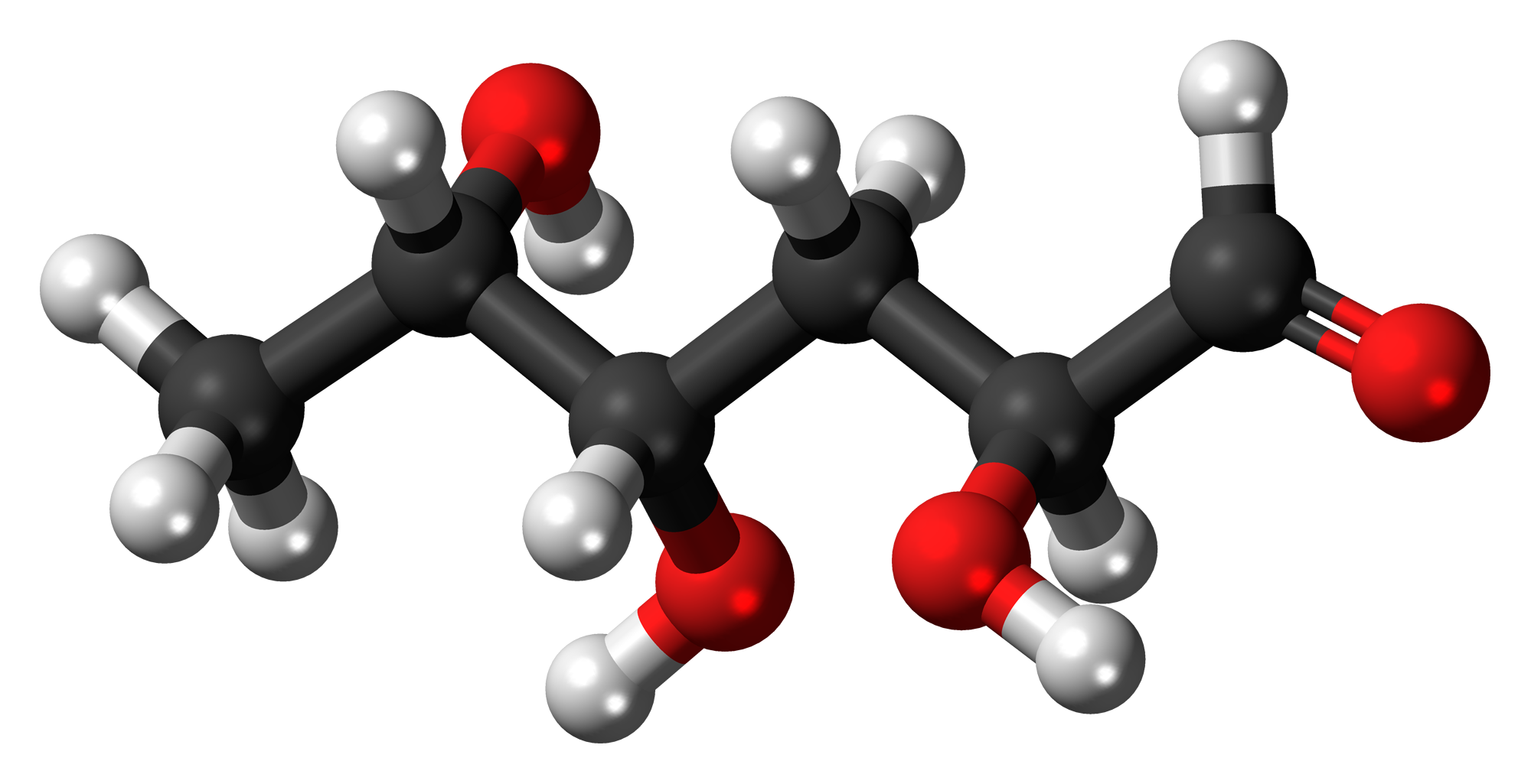 Ball-and-stick model of the colitose molecule, a deoxy sugar. Colour code: Carbon, C: black Hydrogen, H: white Oxygen, O: red